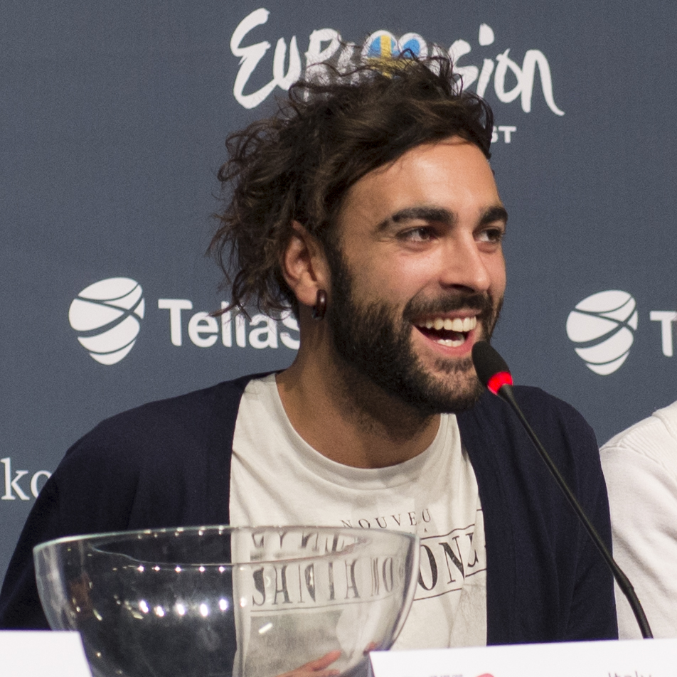 Marco Mengoni at a press conference during the Eurovision Song Contest 2013 Malmö. (Help translate this text)